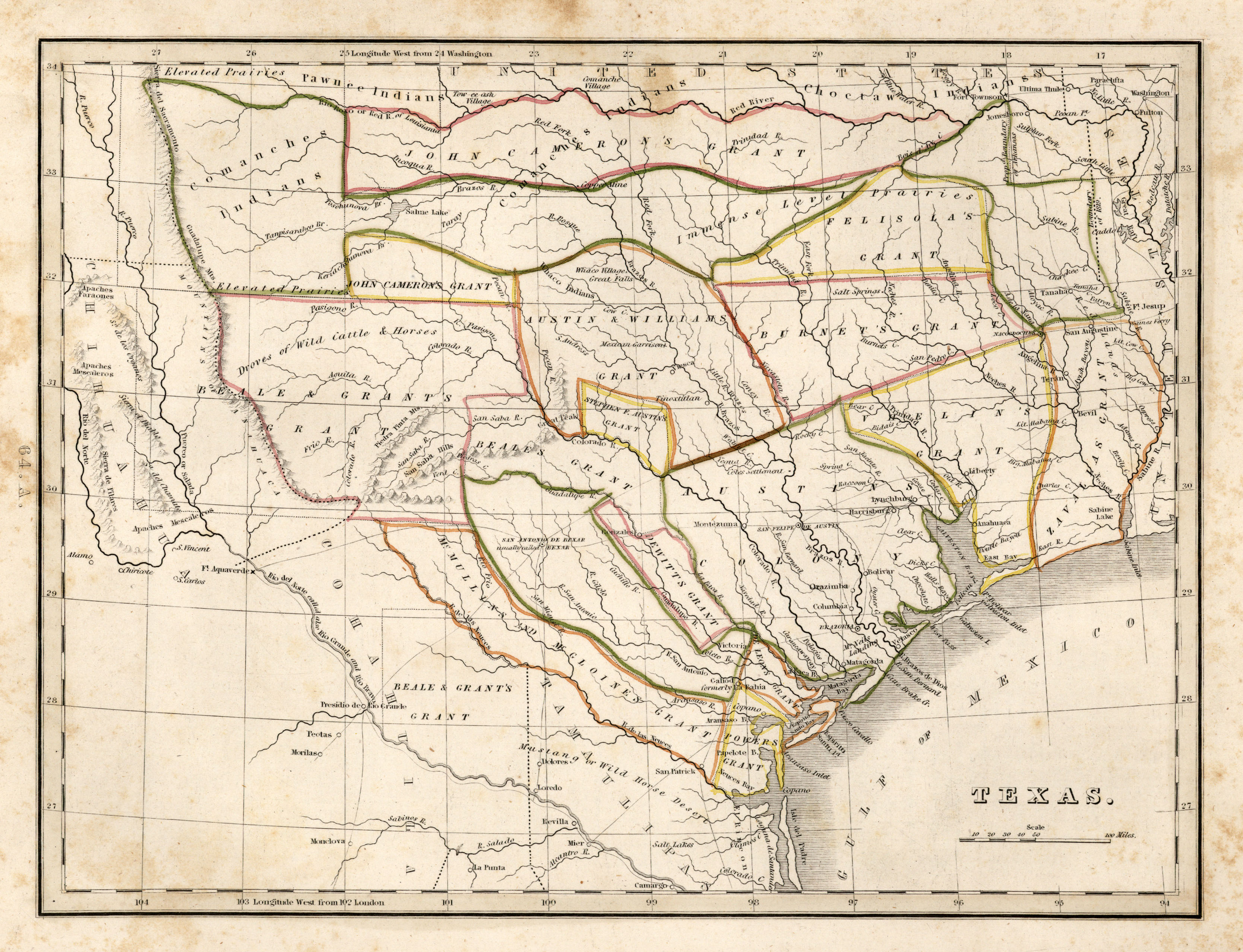 Map of Texas, from Comprehensive Atlas, Geographical, Historical and Commercial by Thomas Gamaliel Bradford, 1835. First issue of the first separate map of Texas to appear in an atlas.